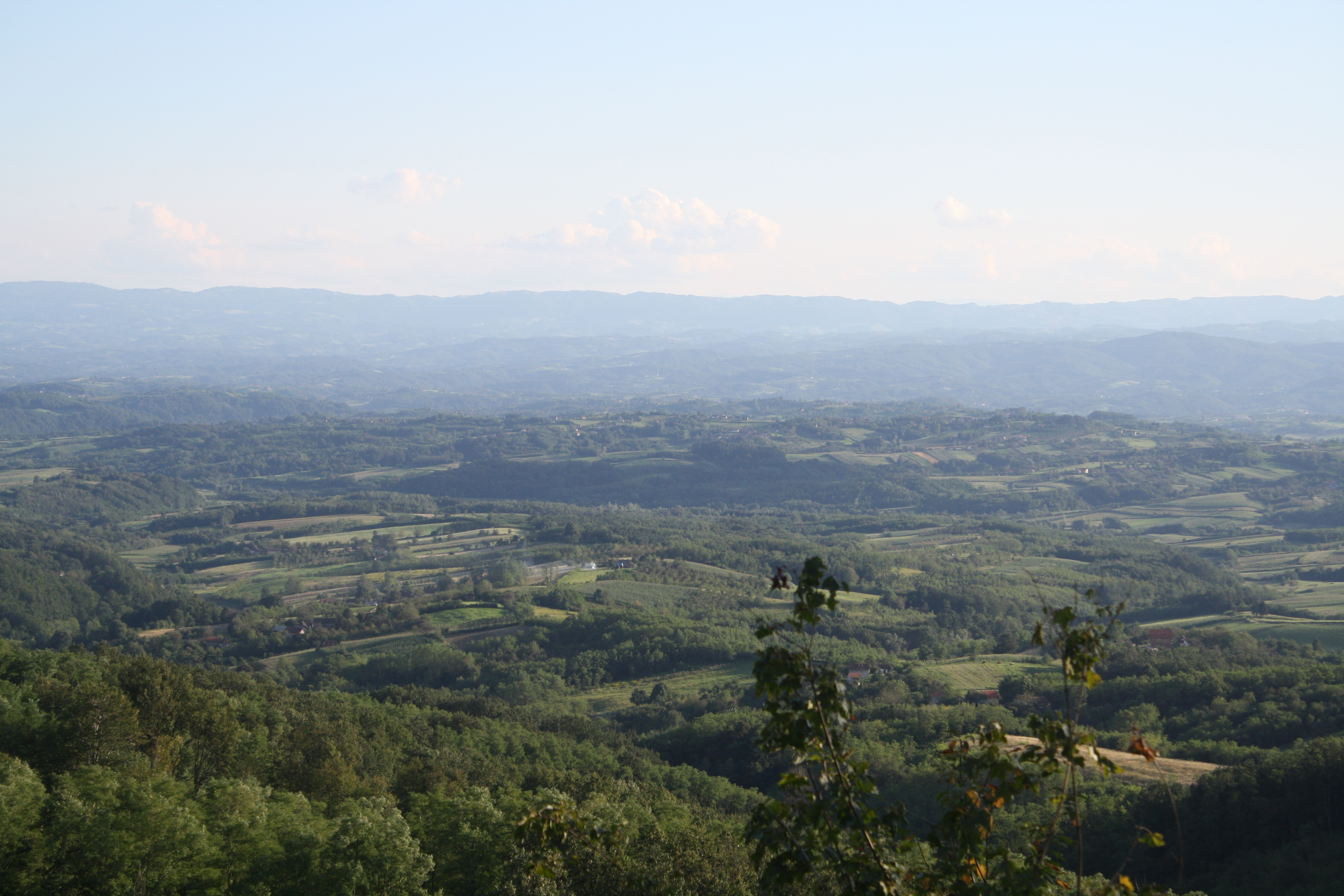 Panoramic view of Cer mountain in Western Serbia